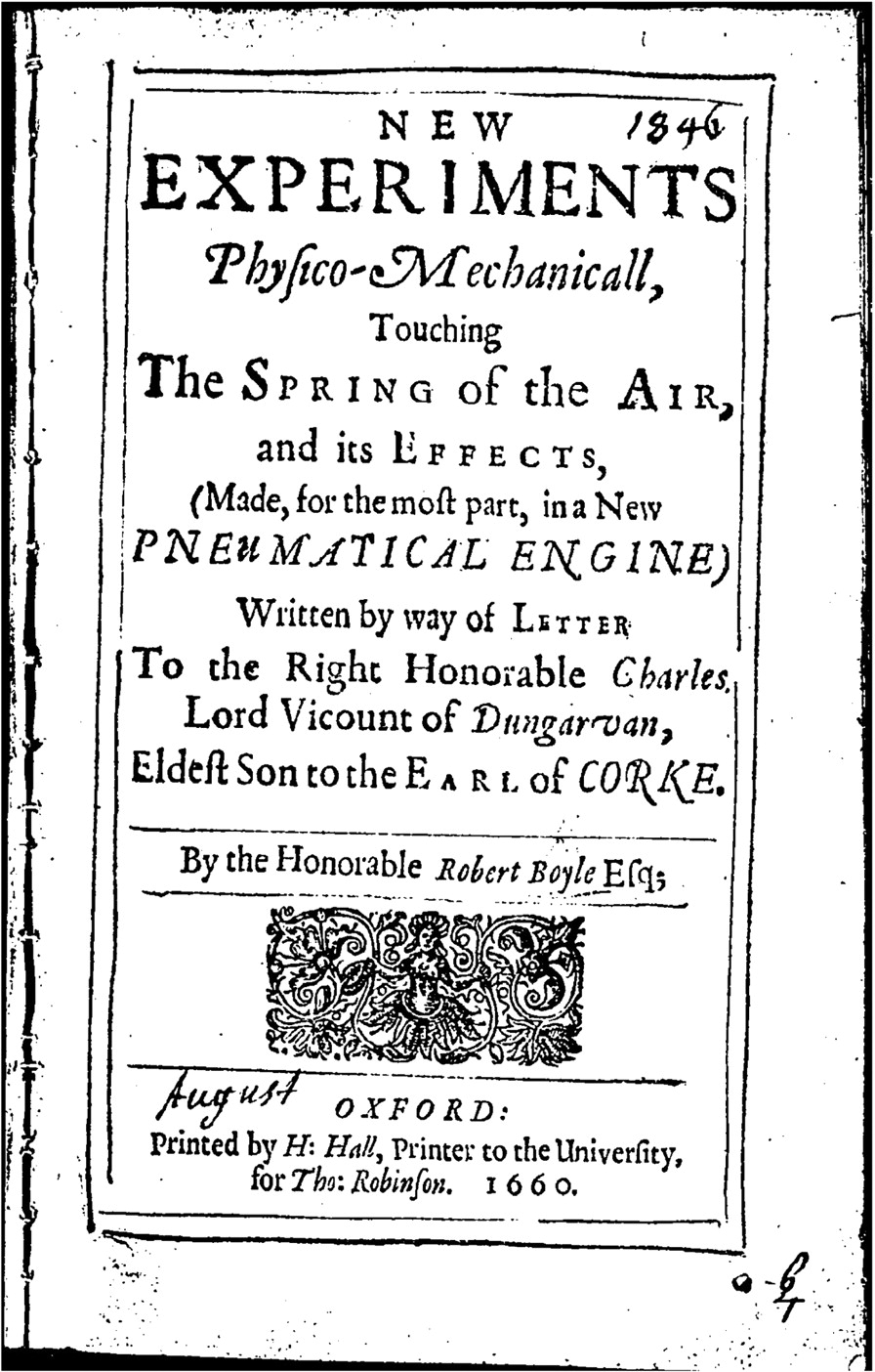 Cover page of Robert Boyle's New Experiments 1660